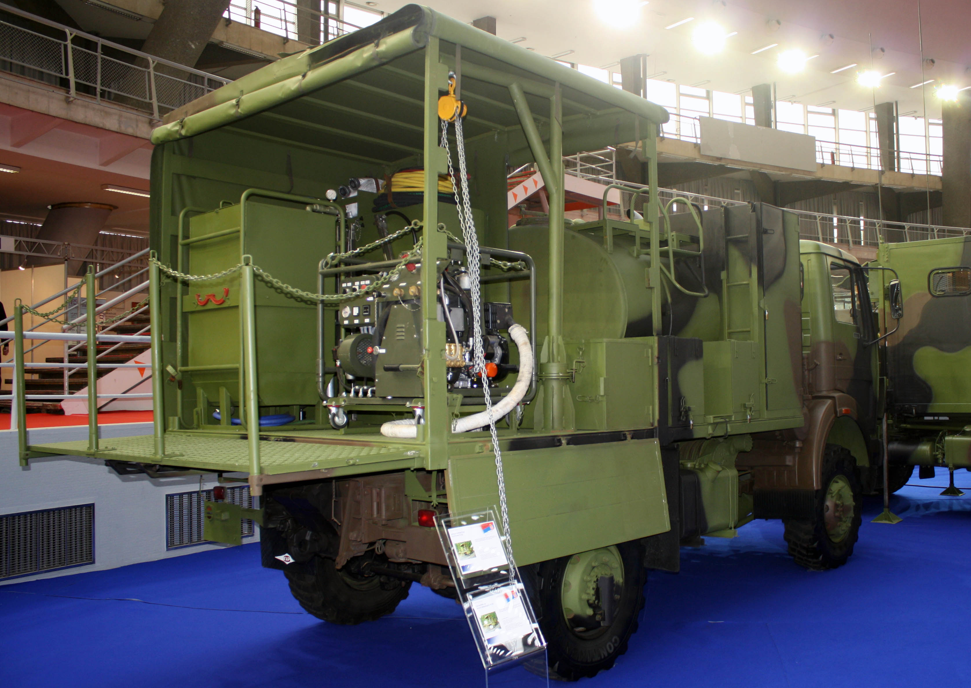 New FAP 1118 Sanijet NBC truck of Serbian Army on display at "Partner 2011" military fair.